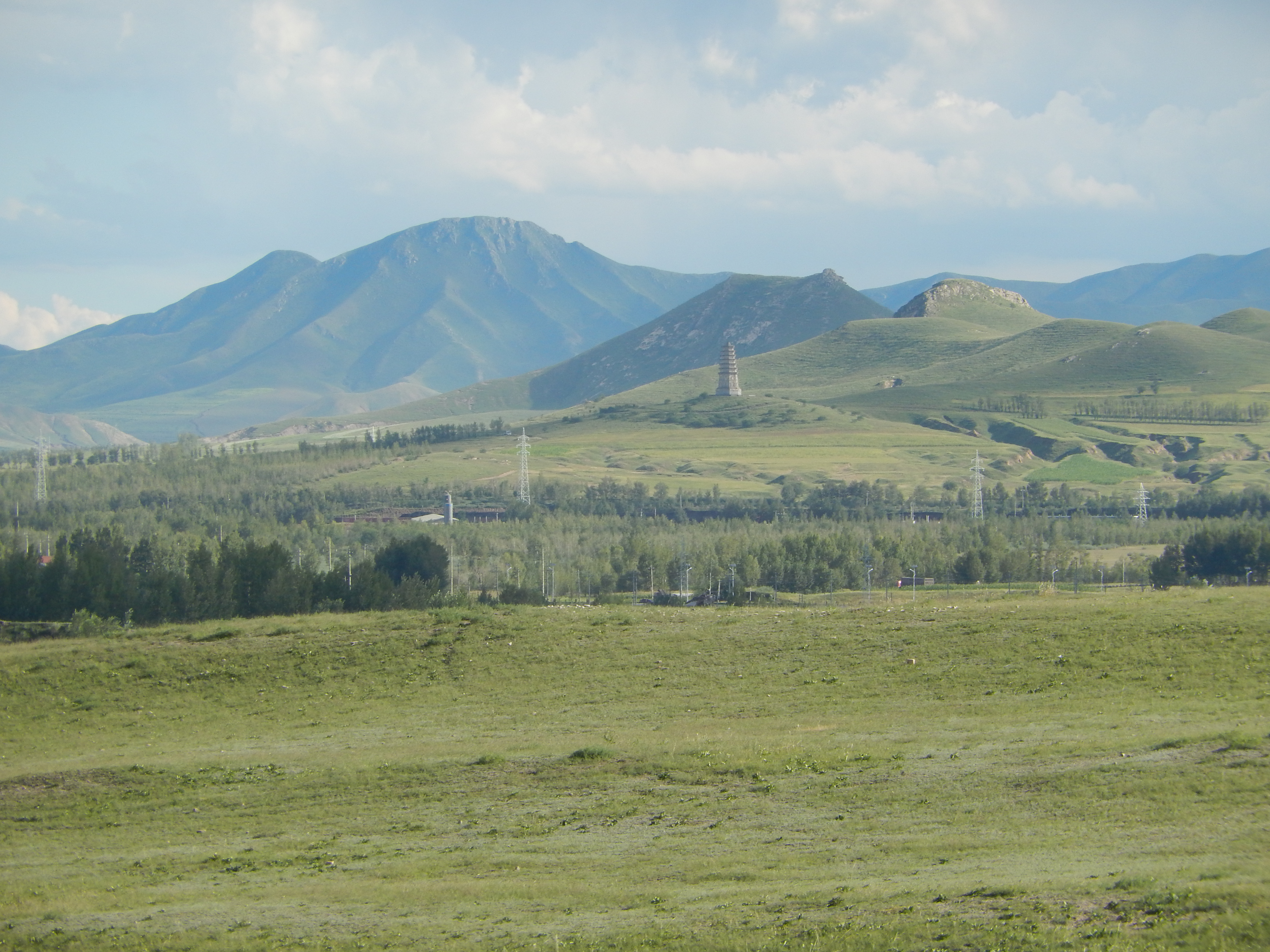 View looking south towards the Liao dynasty South Pagoda from the site of the Liao dynasty Upper Capital (辽上京) at Lindong, Inner Mongolia. Photo taken with zoom from the middle of the north-west wall of the city; the pagoda is just uner 5 km south-southeast from here.